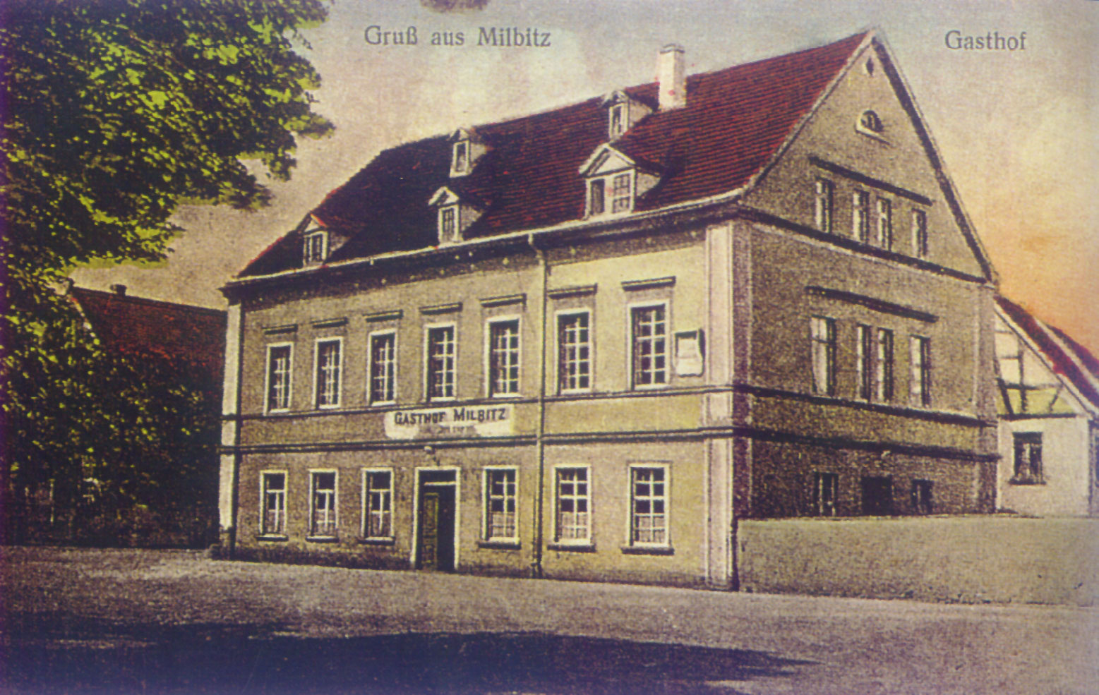 Lunapark restaurant around 1910.